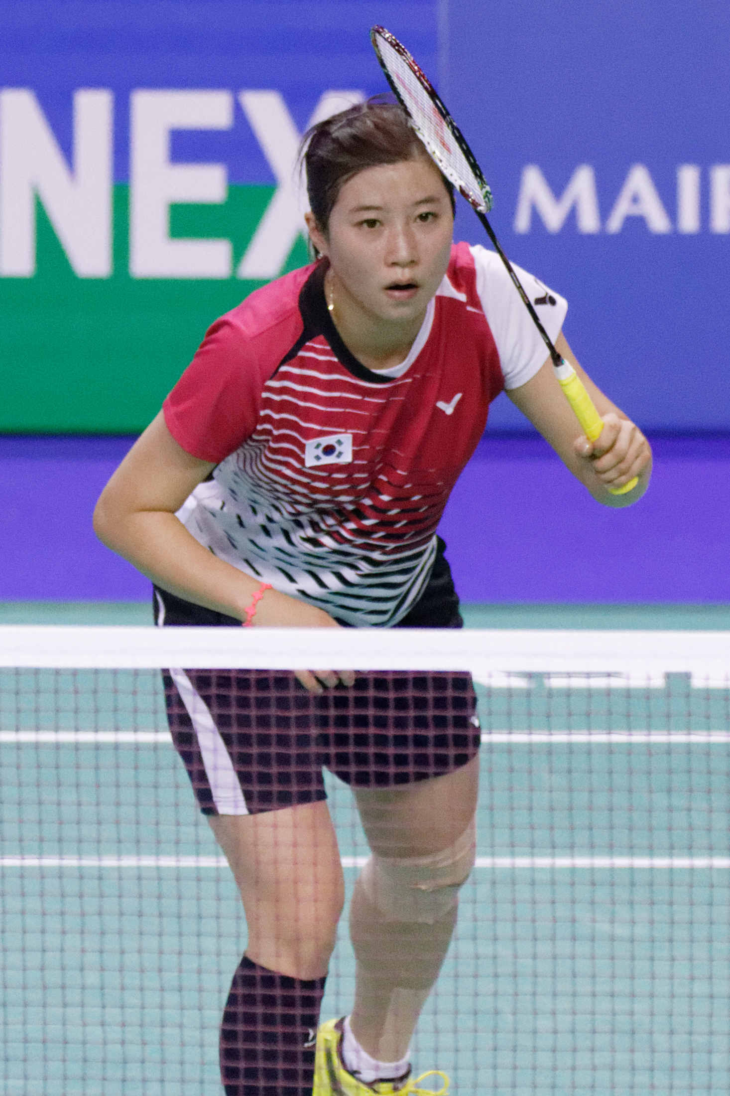 2013 French open. Women's singles eightfinal. Bae Youn-joo vs Saina Nehwal.